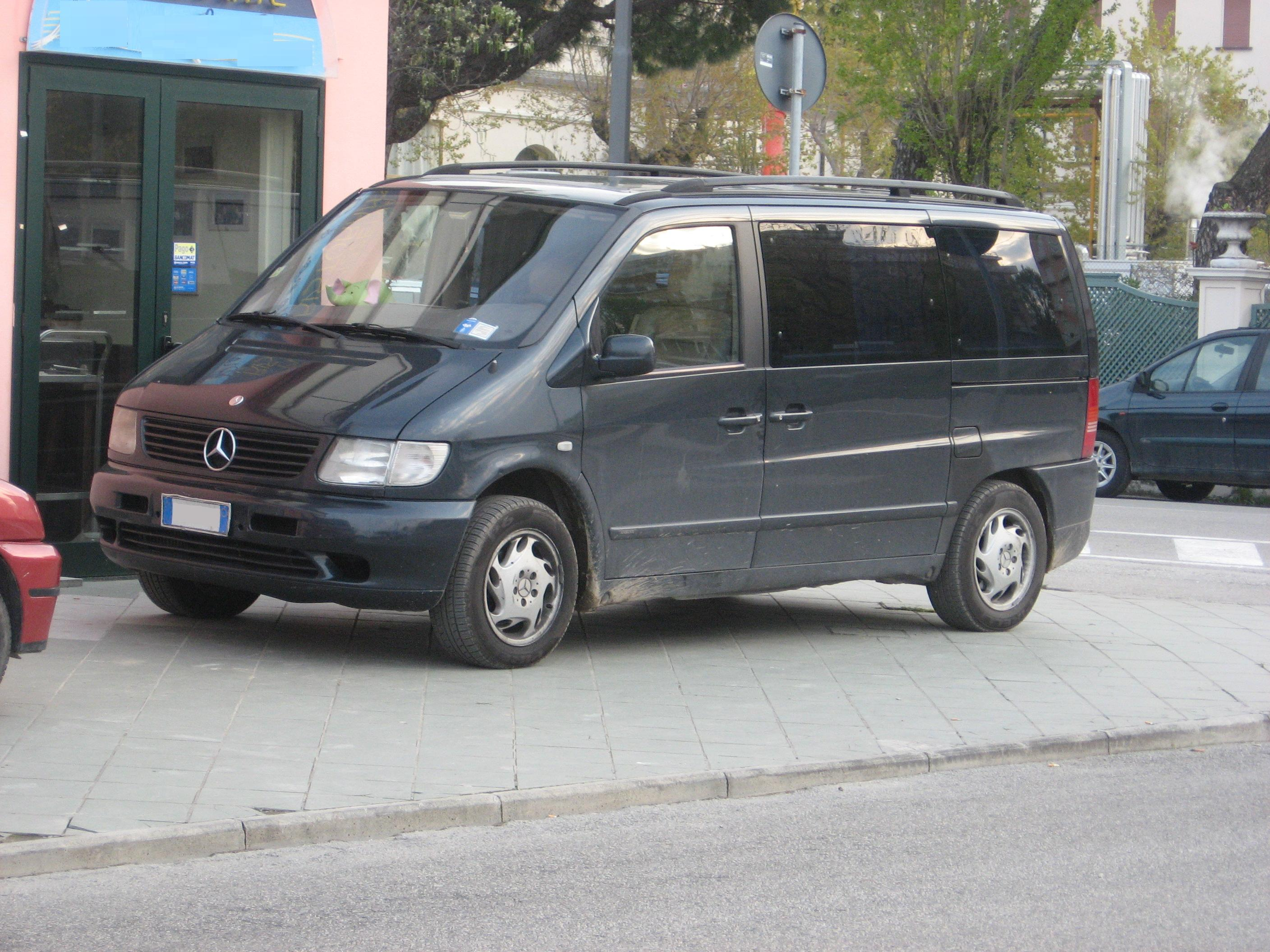 Subject: Mercedes-Benz V-Class W638 Date:April 18th, 2010 Place/Country: Rimini, Italy I release all rights in the public domain.